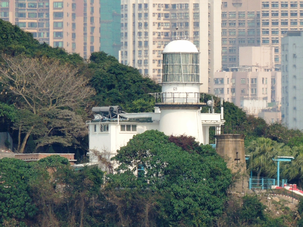 Green Island Lighthouse Compound